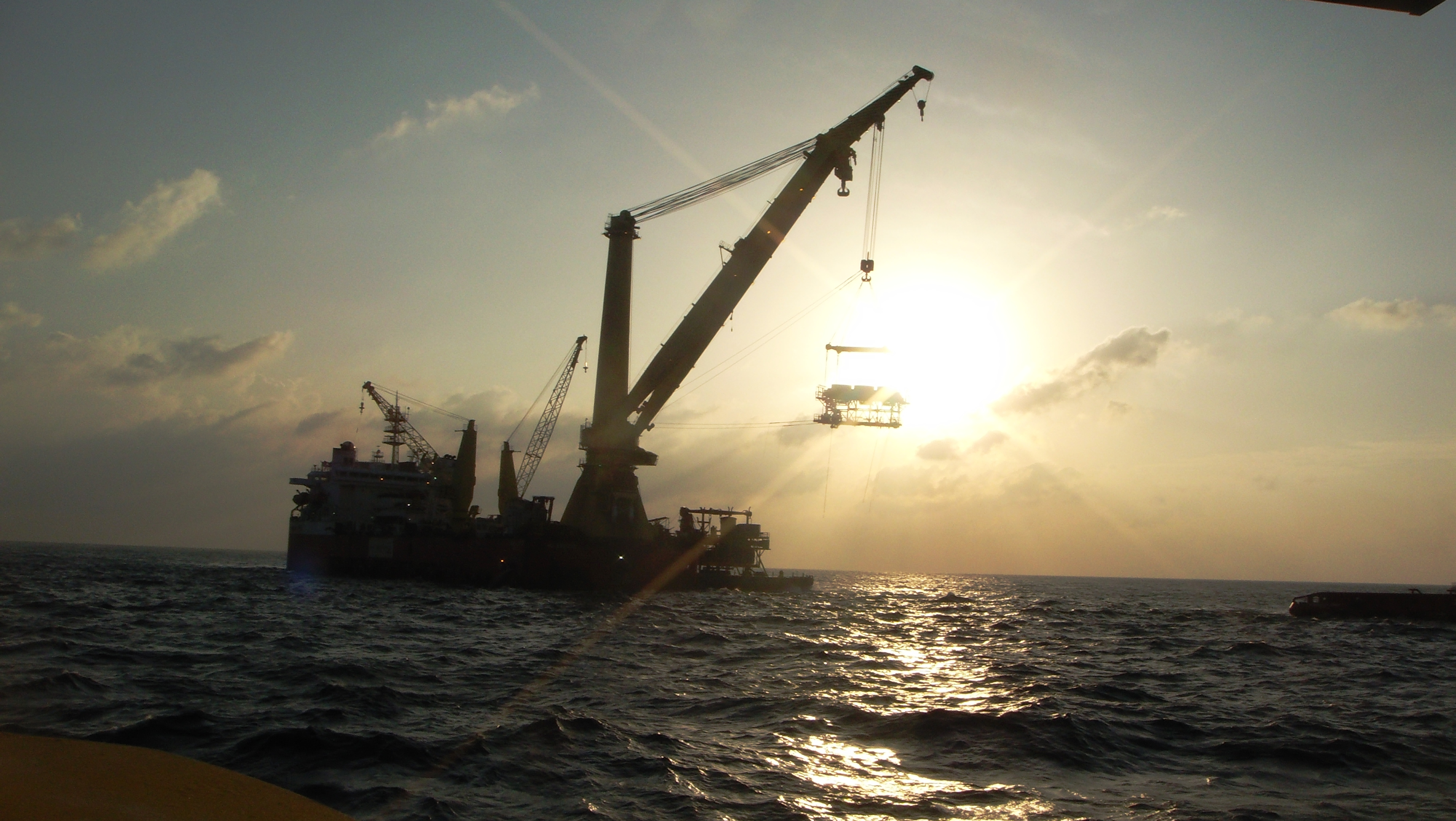 Discharge Cooler trial lift Sunrise and the weather is good for the heavy lifts to commence. The DC unit, 130 Tonnes, is picked up off the PTSC-01 to check the rigging spread is as it should be.